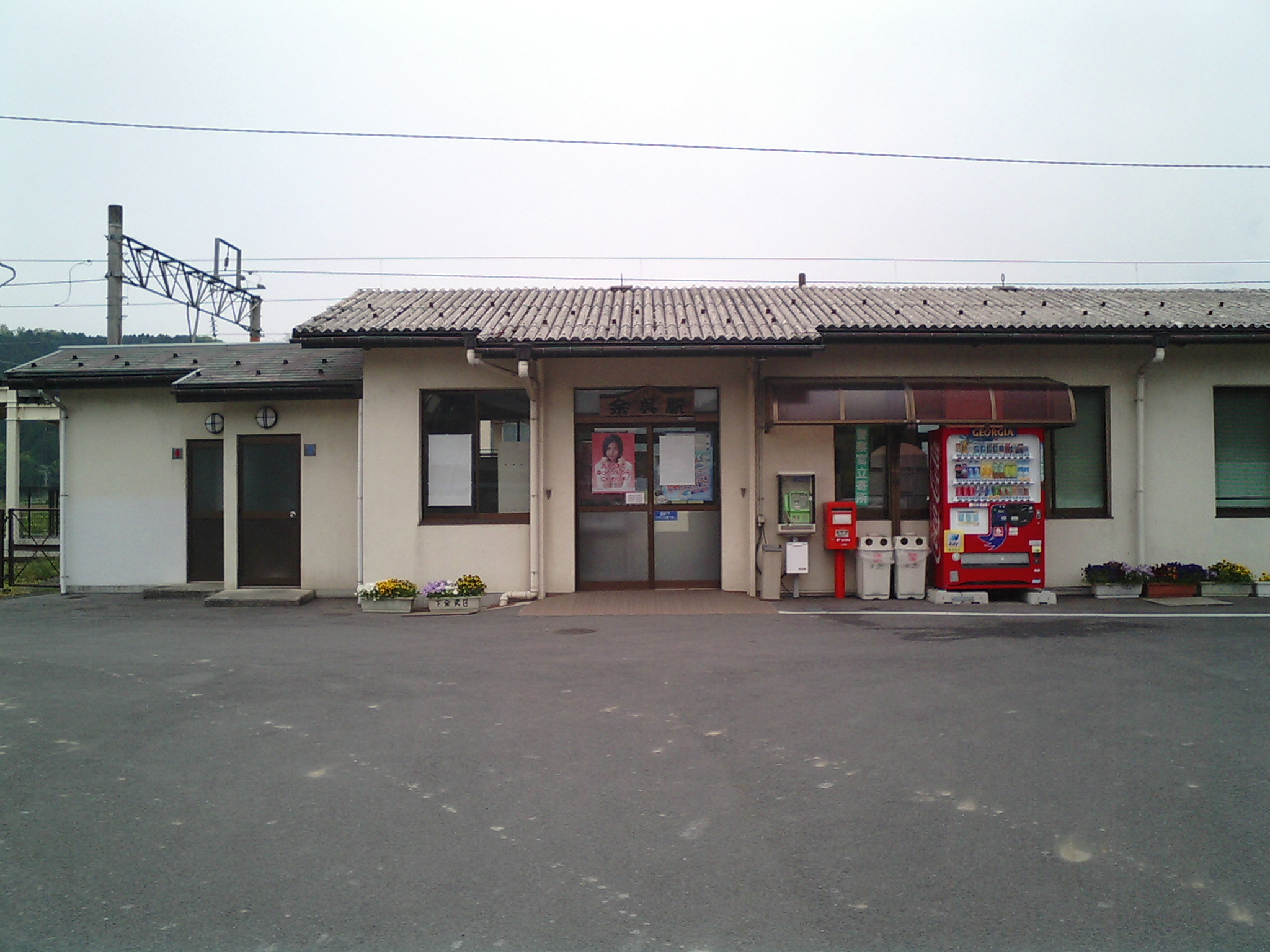 The image of Yogo sta.